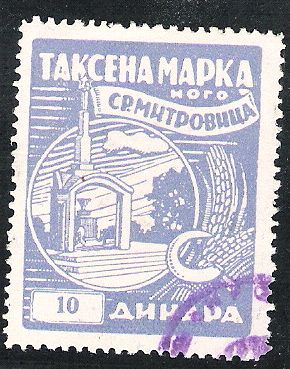 Scanned undated tax stamp of Sremska Mitrovica, former Yugoslavia, now Serbia